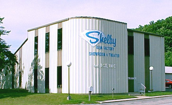 ICT Building also known as Shelby Gem Factory